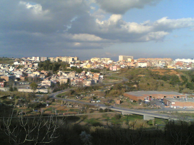 View of the Ripoll river from "the Timba" in the city of Sabadell, Catalonia, Spain.